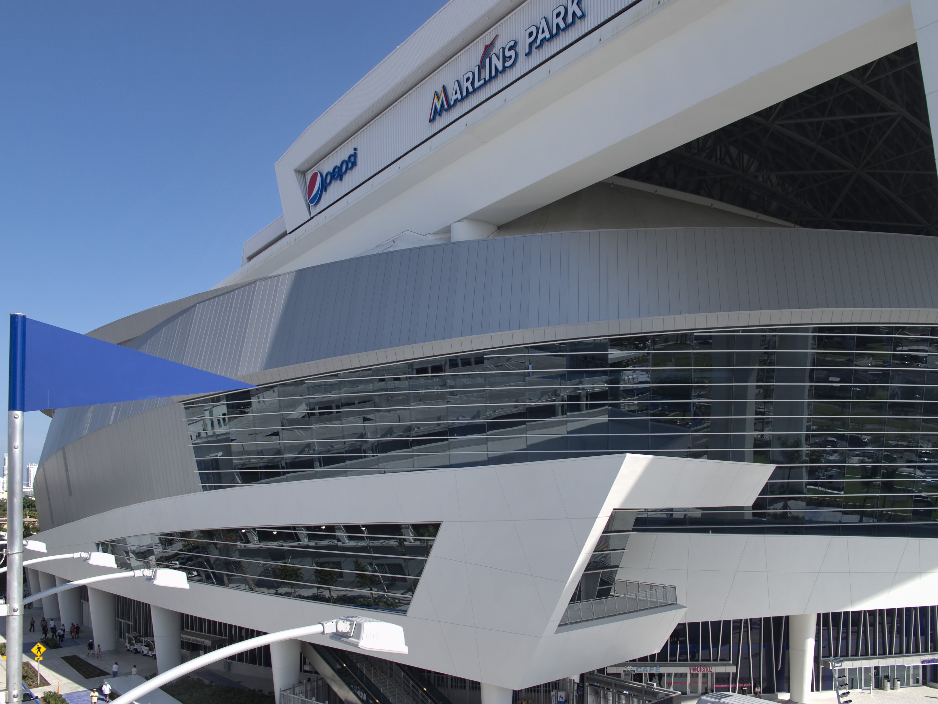 The north side of Marlins Park from the roof of the blue home-plate parking garage. I think the foreground wedge-shaped structure is part of the Diamond Club.